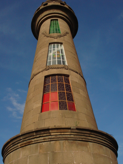 Memorial to the (Mexican) Flag, in San Luis Potosi Mexico.